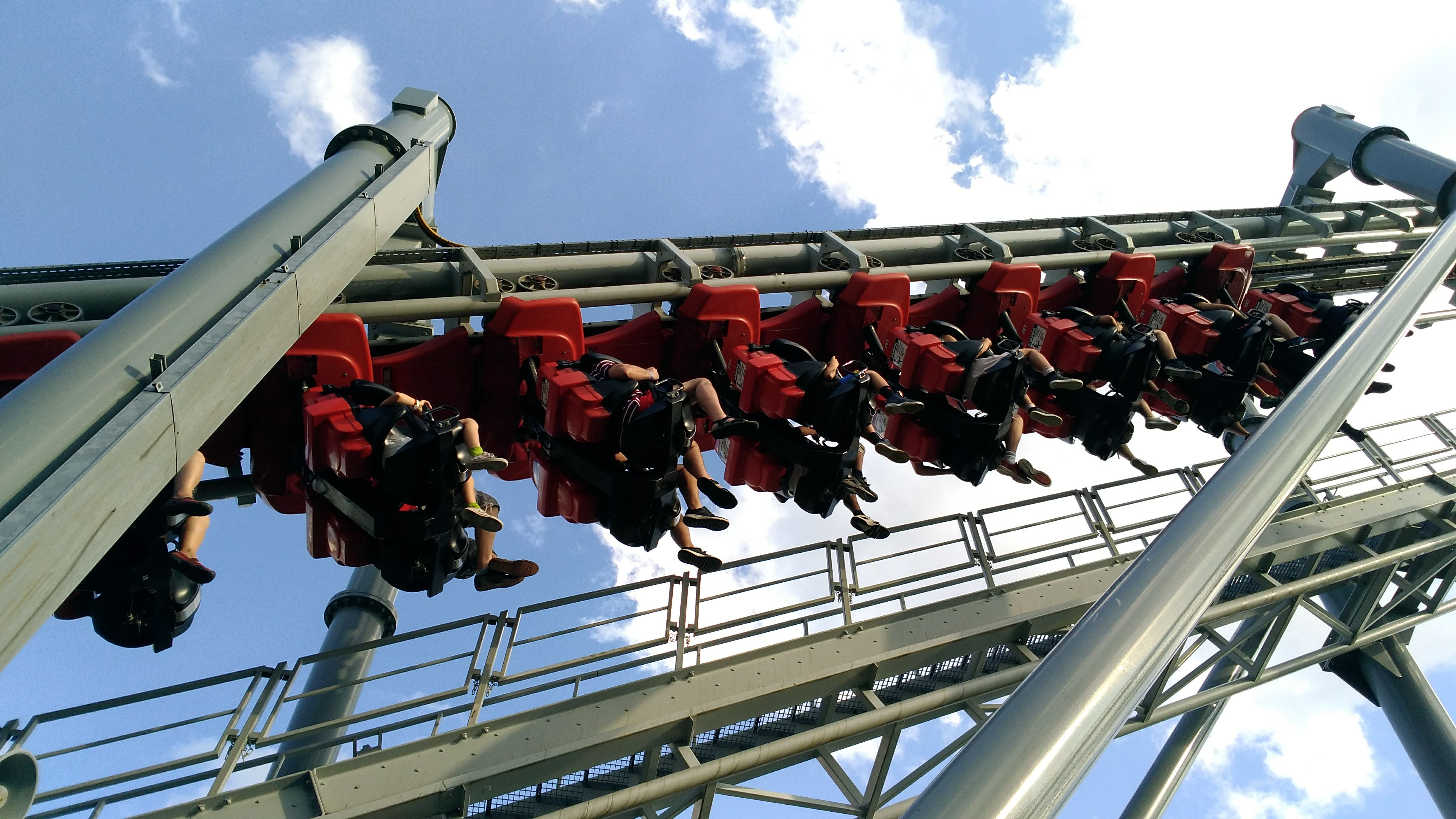 Flight Deck's trains have no floor, unlike traditional roller coasters, so the feet are exposed and left dangling. This is also why secure shoes must be worn on this ride... and for those who came to the park in flip flops, they're allowed to take their footwear off and go barefoot on this ride. Failure to do so often results in shoes being thrown off into the lockout area.